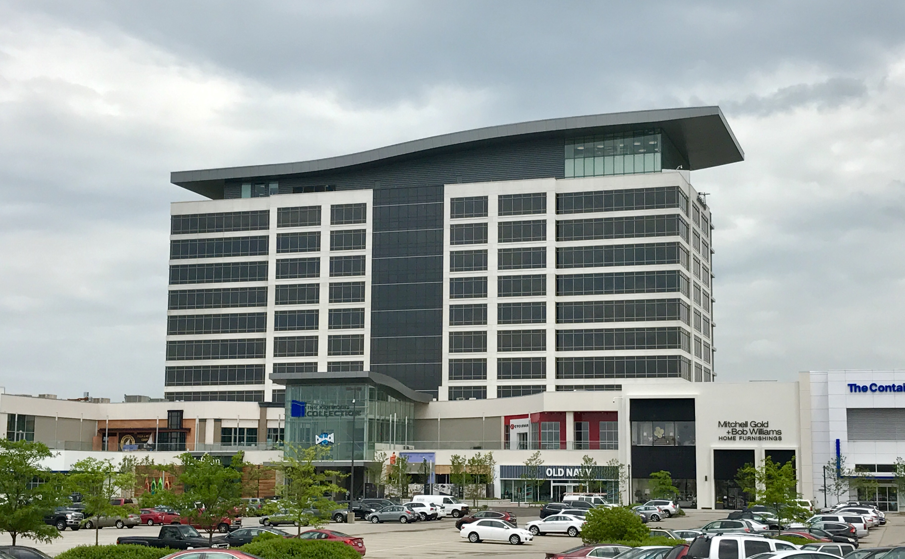 Kenwood Collection retail and office building in Cincinnati Ohio